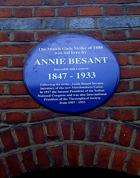 Commemorative plaque for Annie Besant